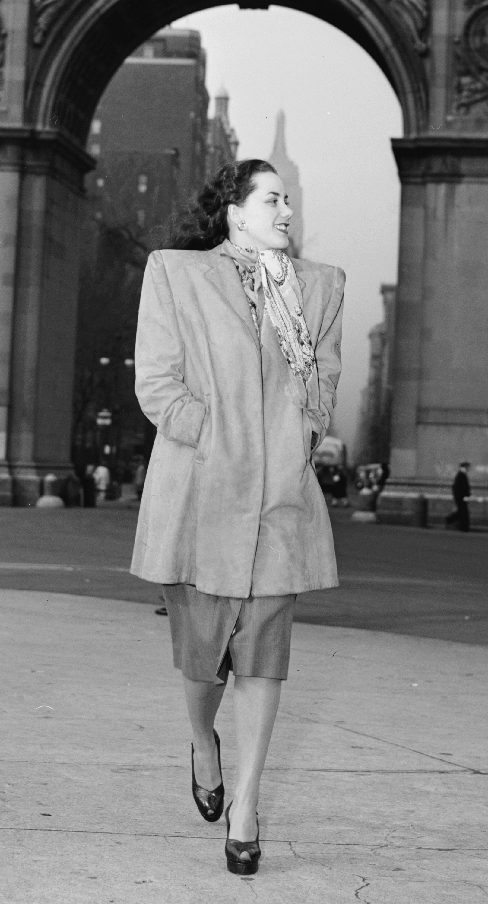 Gottlieb, William P., 1917-, photographer. [Portrait of Ann Hathaway, Washington Square, New York, N.Y., ca. May 1947] 1 negative : b&w ; 3 1/4 x 4 1/4 in. Notes: Gottlieb Collection Assignment No. 545 Purchase William P. Gottlieb Forms part of: William P. Gottlieb Collection (Library of Congress). Subjects: Hathaway, Ann Women jazz musicians--1940-1950. Jazz singers--1940-1950. Format: Portrait photographs--1940-1950. Film negatives--1940-1950. Rights Info: Mr. Gottlieb has dedicated these works to the public domain, but rights of privacy and publicity may apply. Repository: (negative) Library of Congress, Prints & Photographs Division, Washington D.C. 20540 USA, Part Of: William P. Gottlieb Collection (DLC) 99-401005 General information about the Gottlieb Collection is available at Persistent URL: Call Number: LC-GLB13- 1237 This work is from the William P. Gottlieb collection at the Library of Congress. Rights and restrictions.In accordance with the wishes of William Gottlieb, the photographs in this collection entered into the public domain on February 16, 2010.